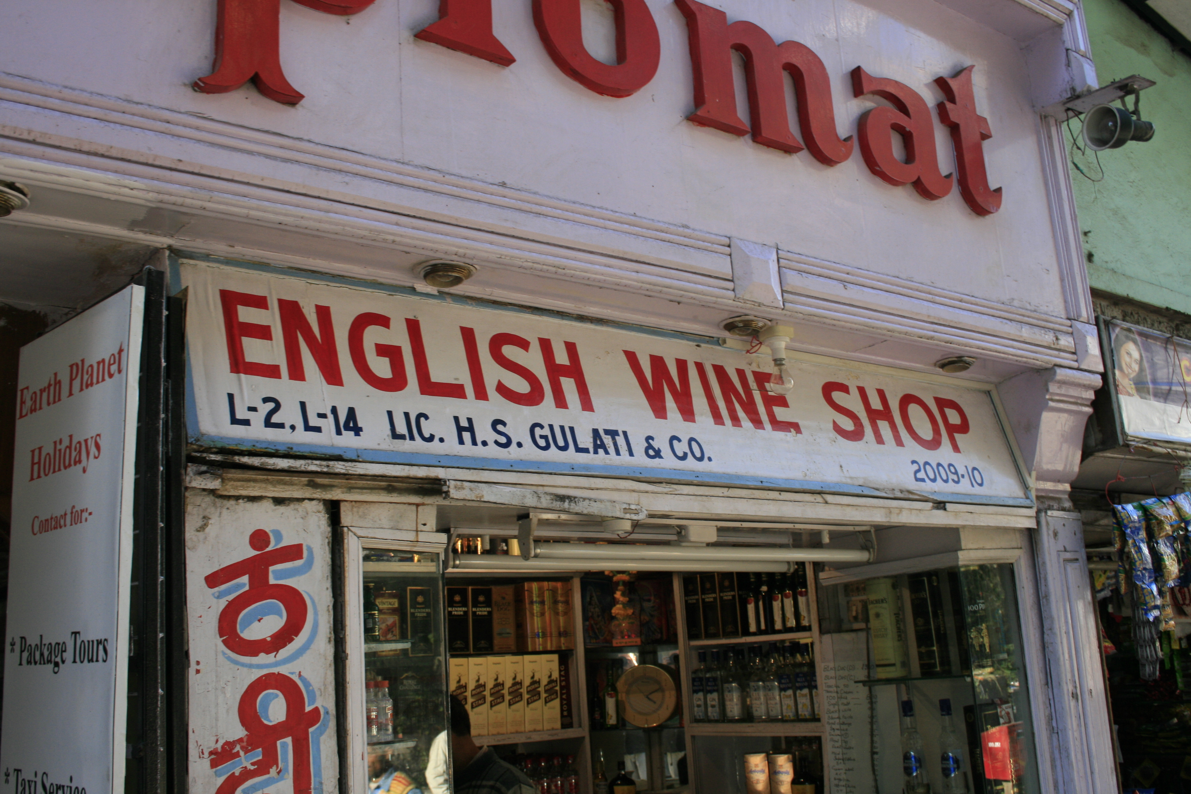 English Wine Shop of Shimla